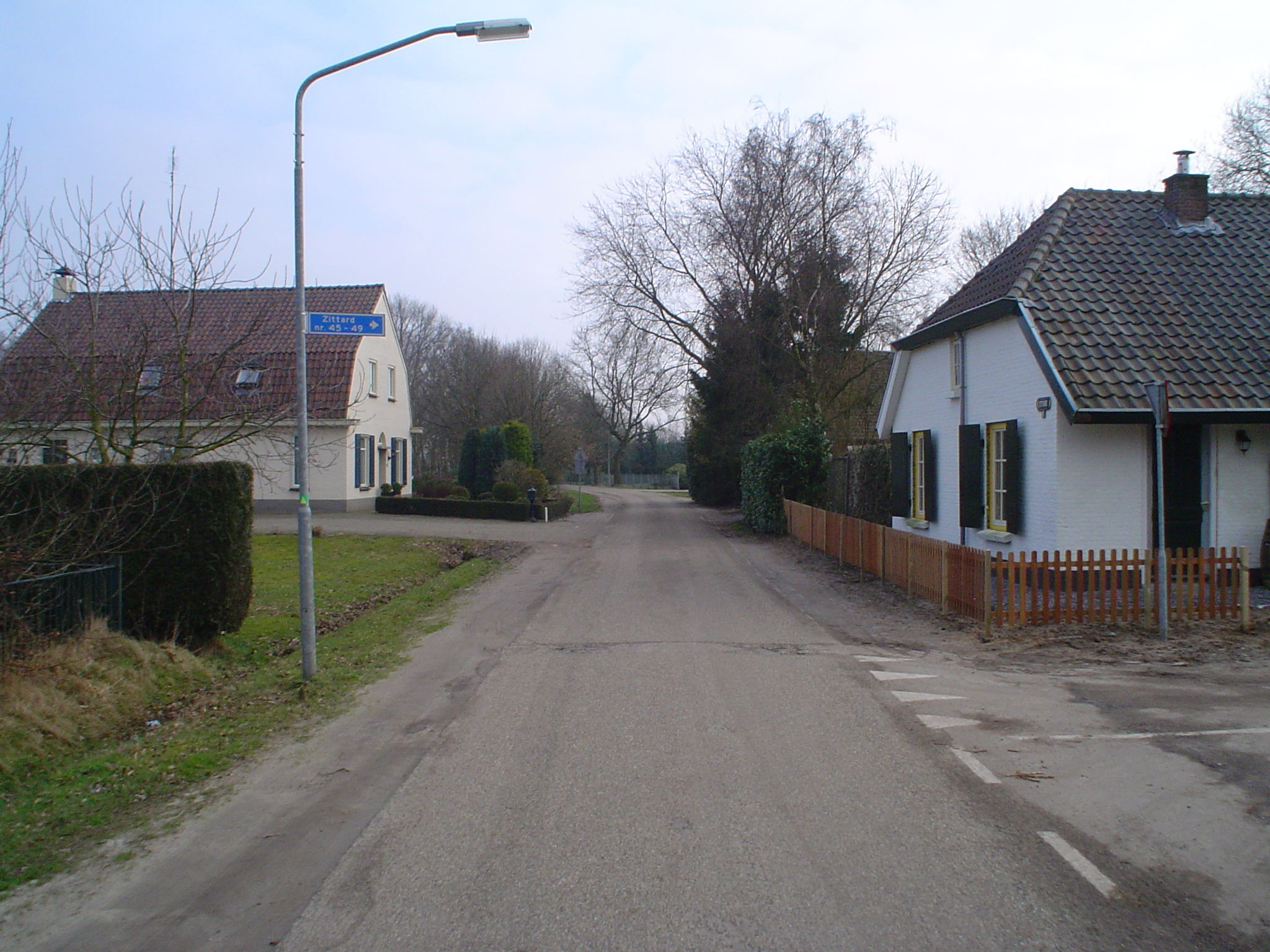 Farmhouses in the hamlet Zittard, near Veldhoven, the Netherlands.